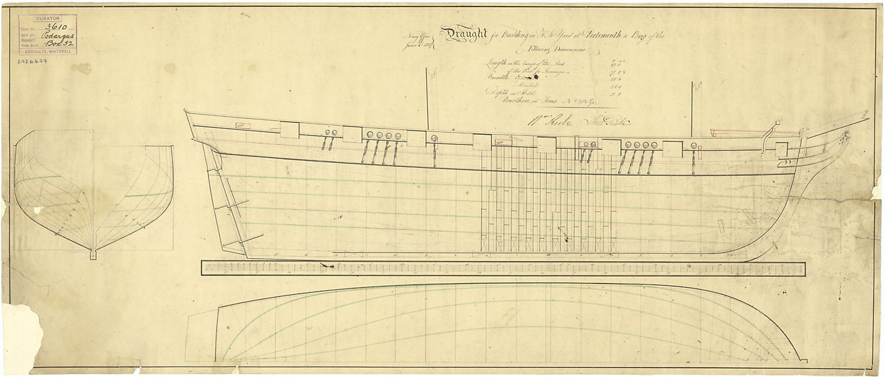 PODARGUS 1808 lines